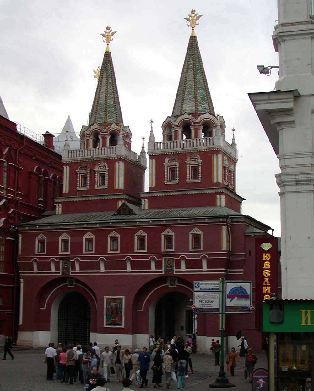 Photo of Resurrection Gate in Moscow's Red Square